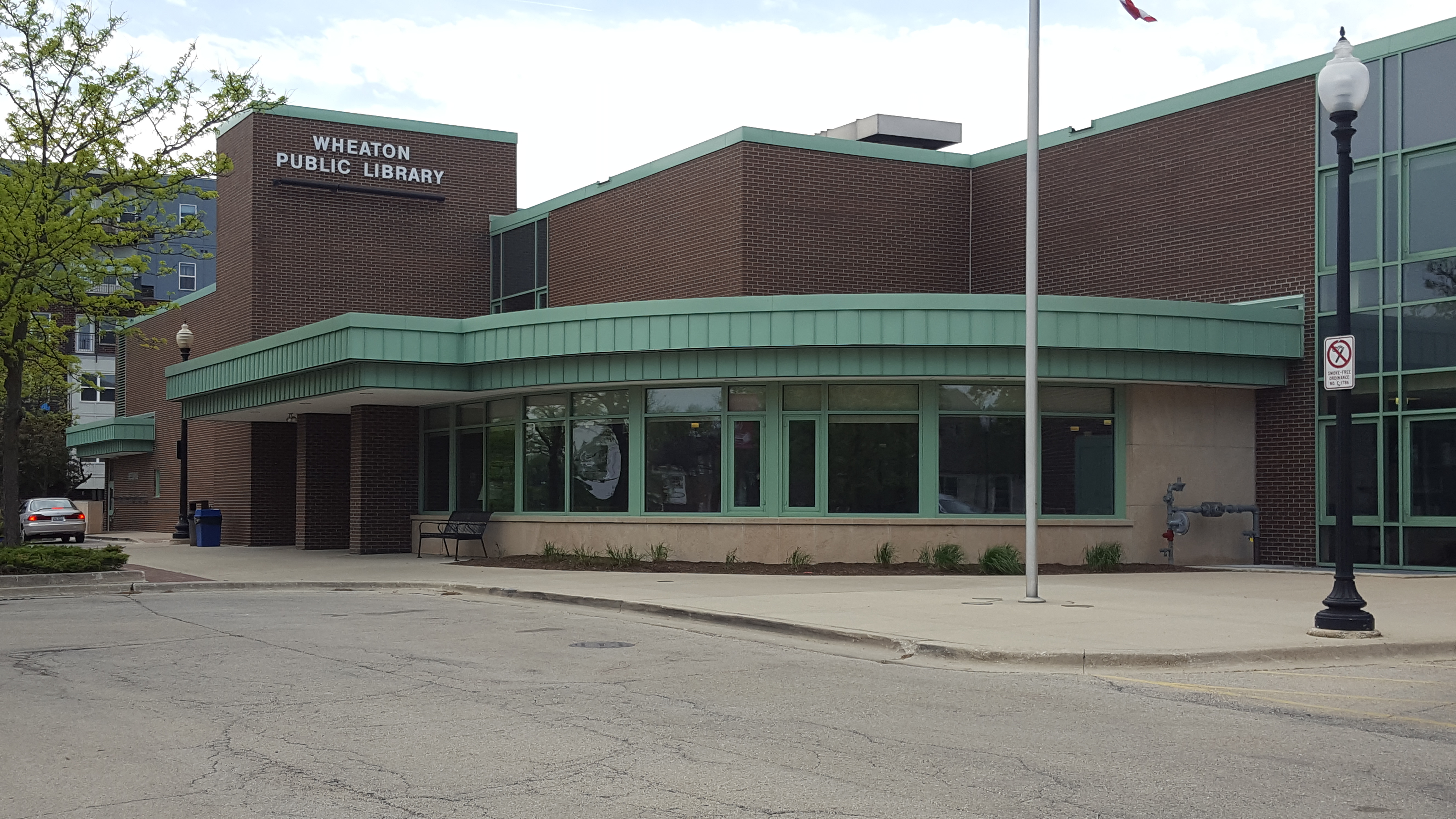 A view of the main entrance of Wheaton Public Library from the parking lot.